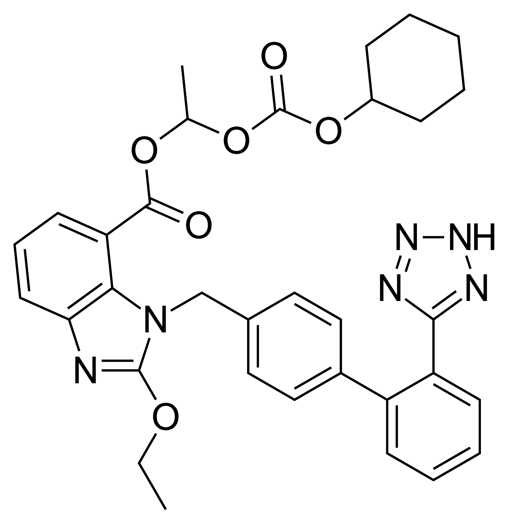 Structure of candesartan cilexetil.